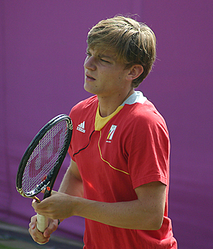 David Goffin at the 2012 Summer Olympics.